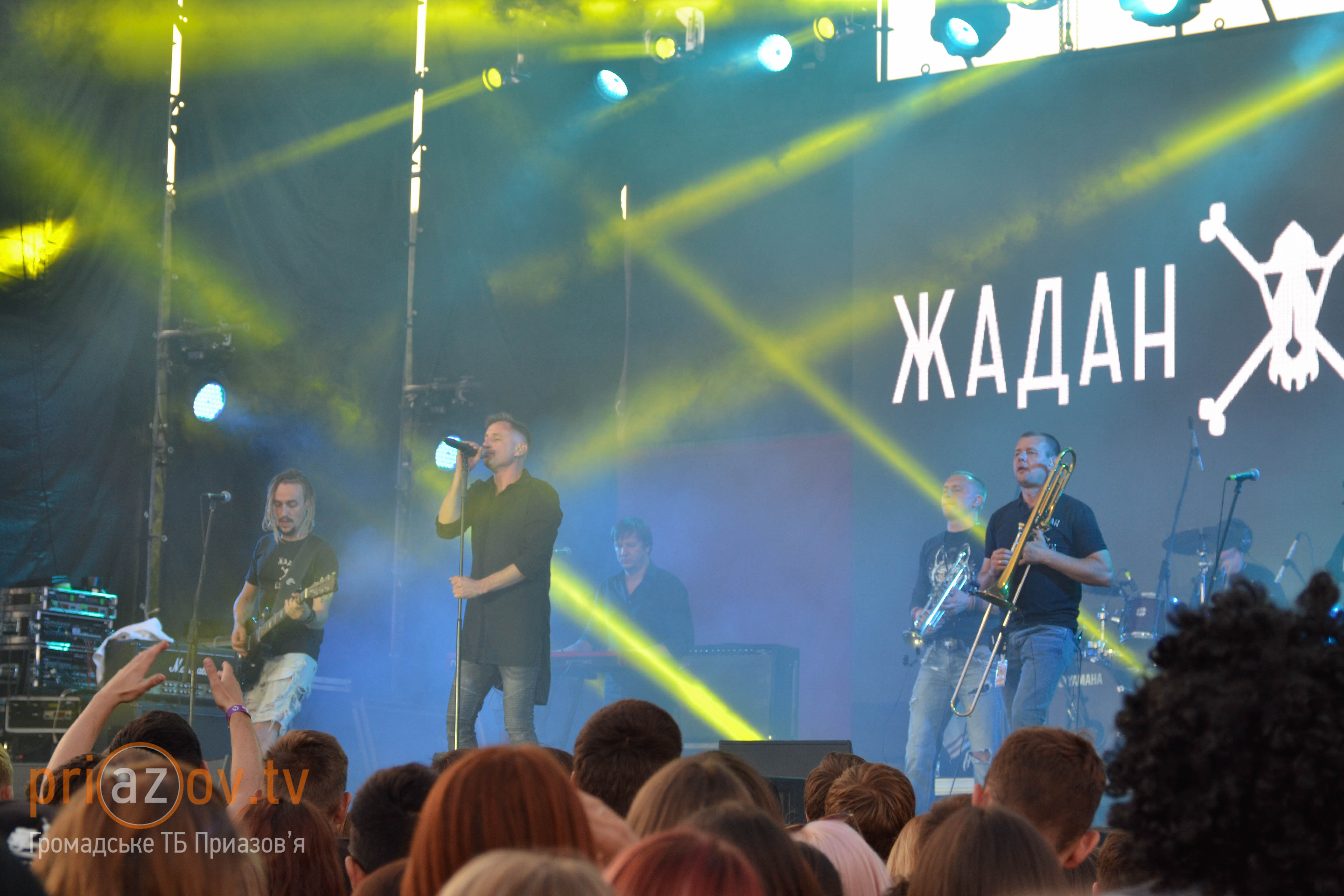 Ukrainian rock band Жадан і Собаки (Zhadan i Sobaky) at the MRPL City 2017 fest in Mariupol.